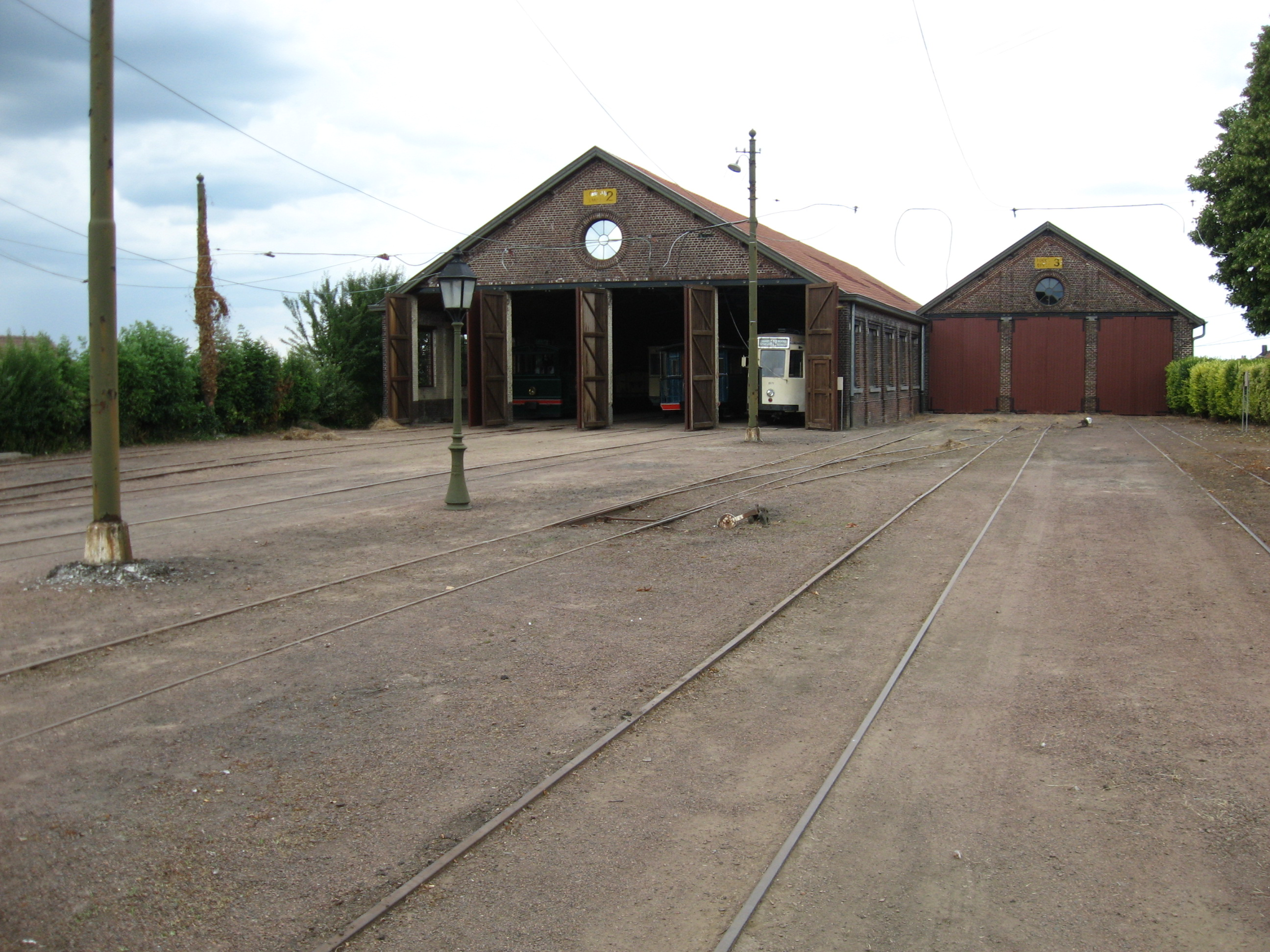 View in the trammuseum Schepdaal. Was a original SNCV workplace. In the buiding with open doors there is an exposition. The other building is accessible from the other building, but is not yet ready for exposition.